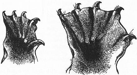 Feet of Philippine Colugo, or Flying-Lemur (Galeopithecus philippinensis)